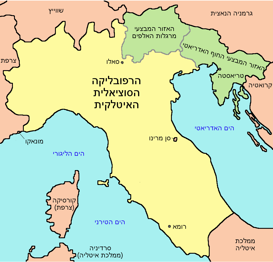 Italian social republic map in Hebrew language.